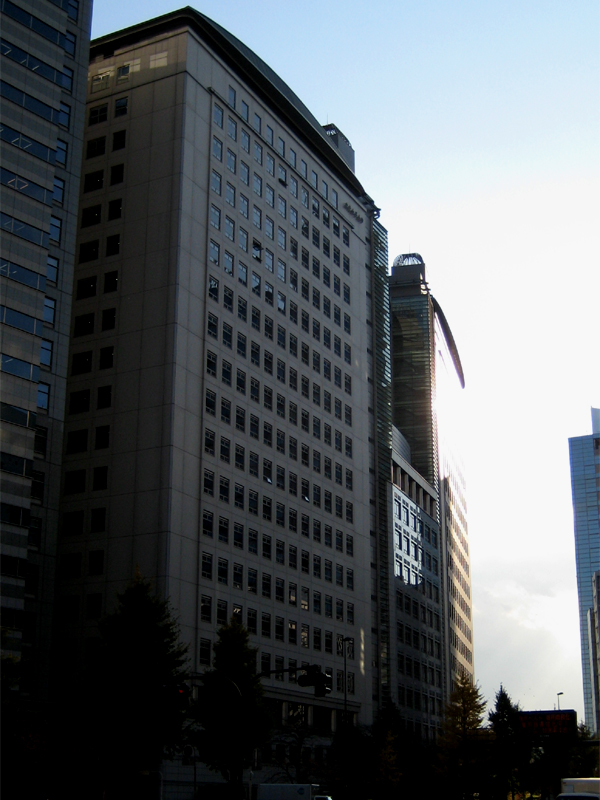 Bunka Women's Univercity, Japan 文化女子大学新都心キャンパス